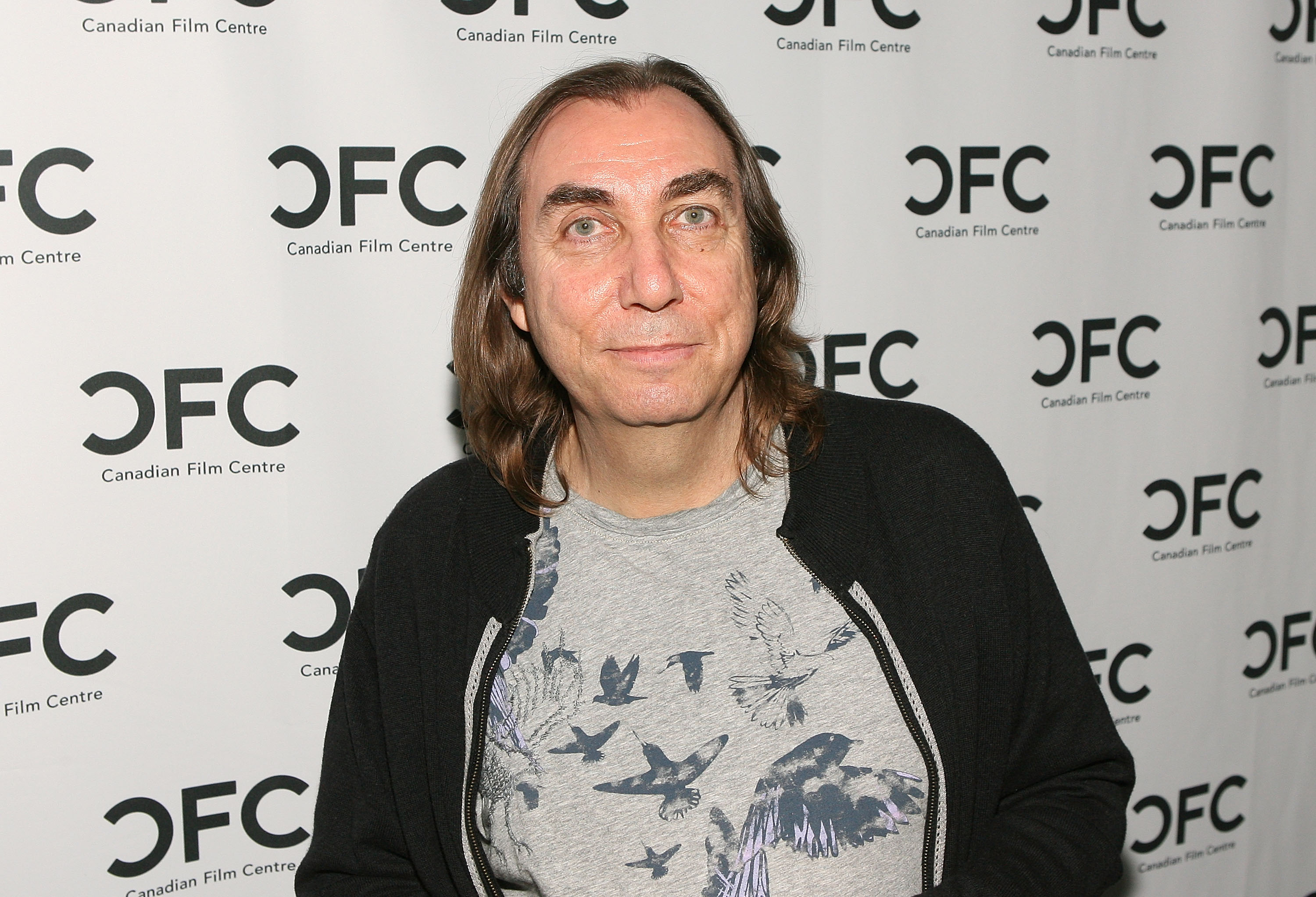 BEVERLY HILLS, CA - MARCH 09: Producer Pen Densham attends The Canadian Film Centre cocktail reception celebrating the Telefilm Canada Features Comedy Lab held at Avalon Hotel on March 9, 2011 in Beverly Hills, California. To learn more about the Telefilm Canada Features Comedy Lab, please visit: (Photo by Jesse Grant/WireImage)